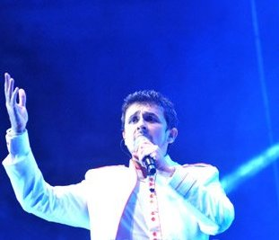 Sonu Nigam at the 'Klose To My Heart' concert